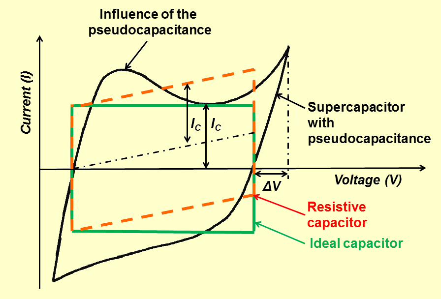 Voltagram of a supercapacitor with pseudocapacitance compered with other capacitor voltagrams